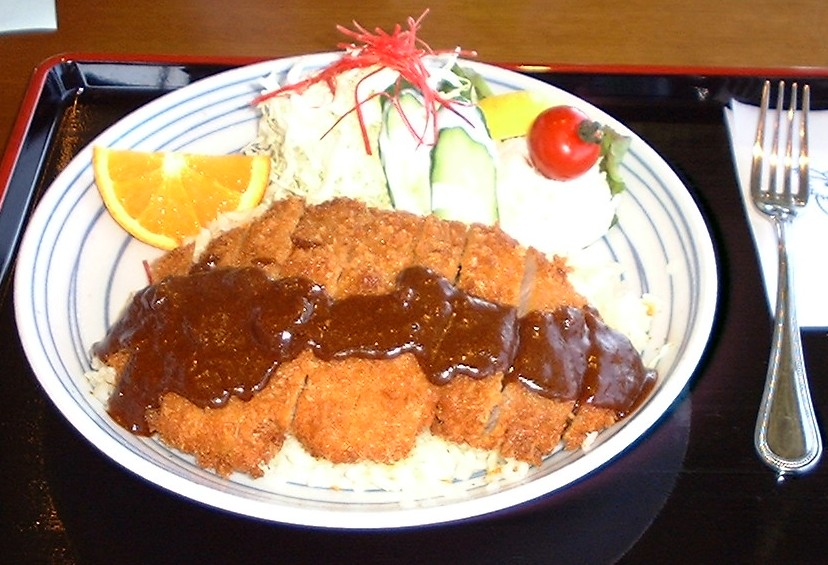 Escalope, a local dish of Nemuro, Hokkaido, Japan.